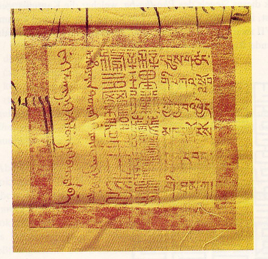 Seal of the Tibetan ruler Pholhanes, granted by the chinese emporer